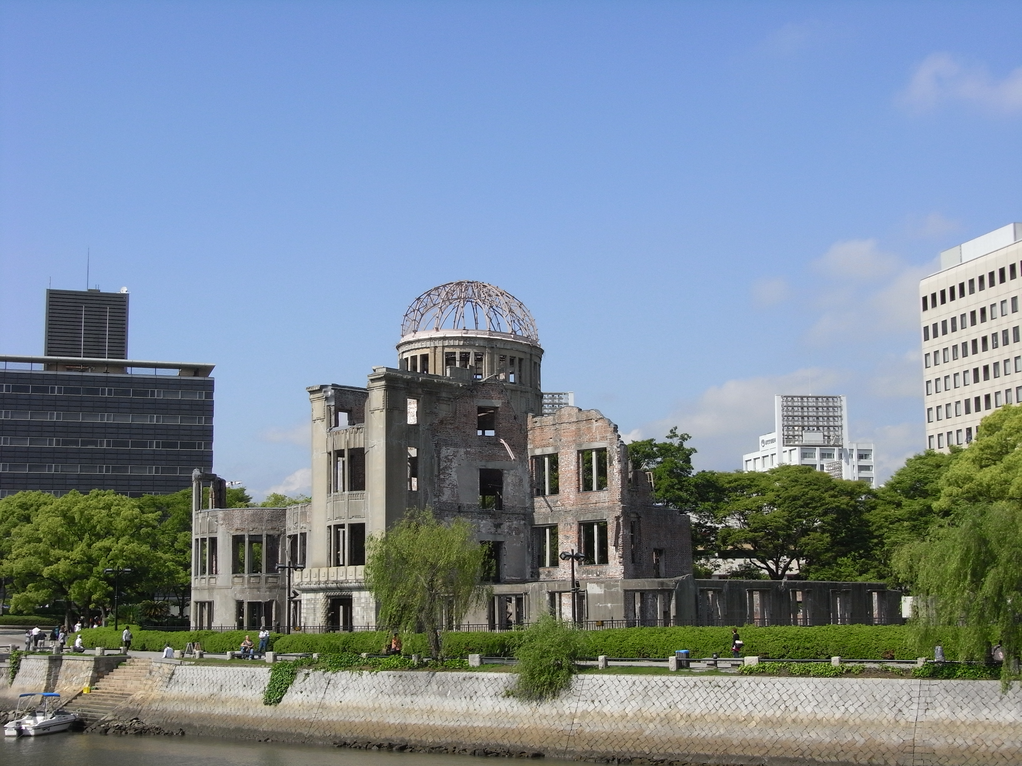 Hiroshima Peace Memorial(原爆ドーム)